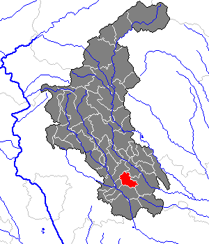 This map shows the area of the Gemeinde (municipality) Nitscha in the Bezirk (district) Weiz, Styria, Austria.